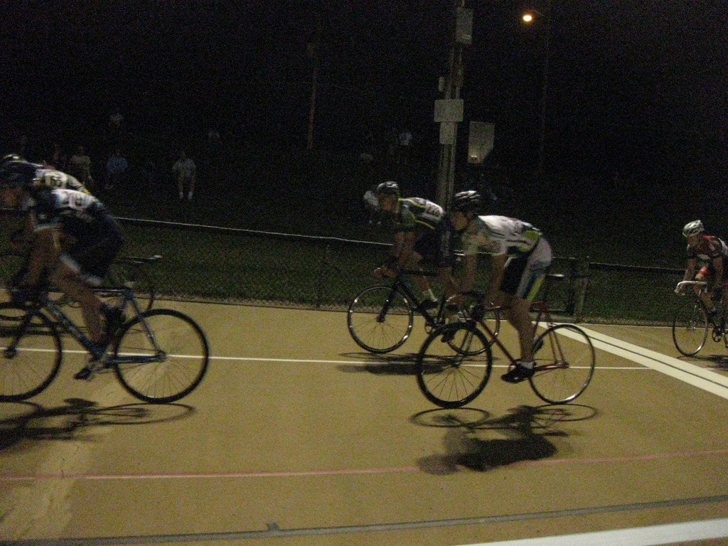 Kenosha track racing.